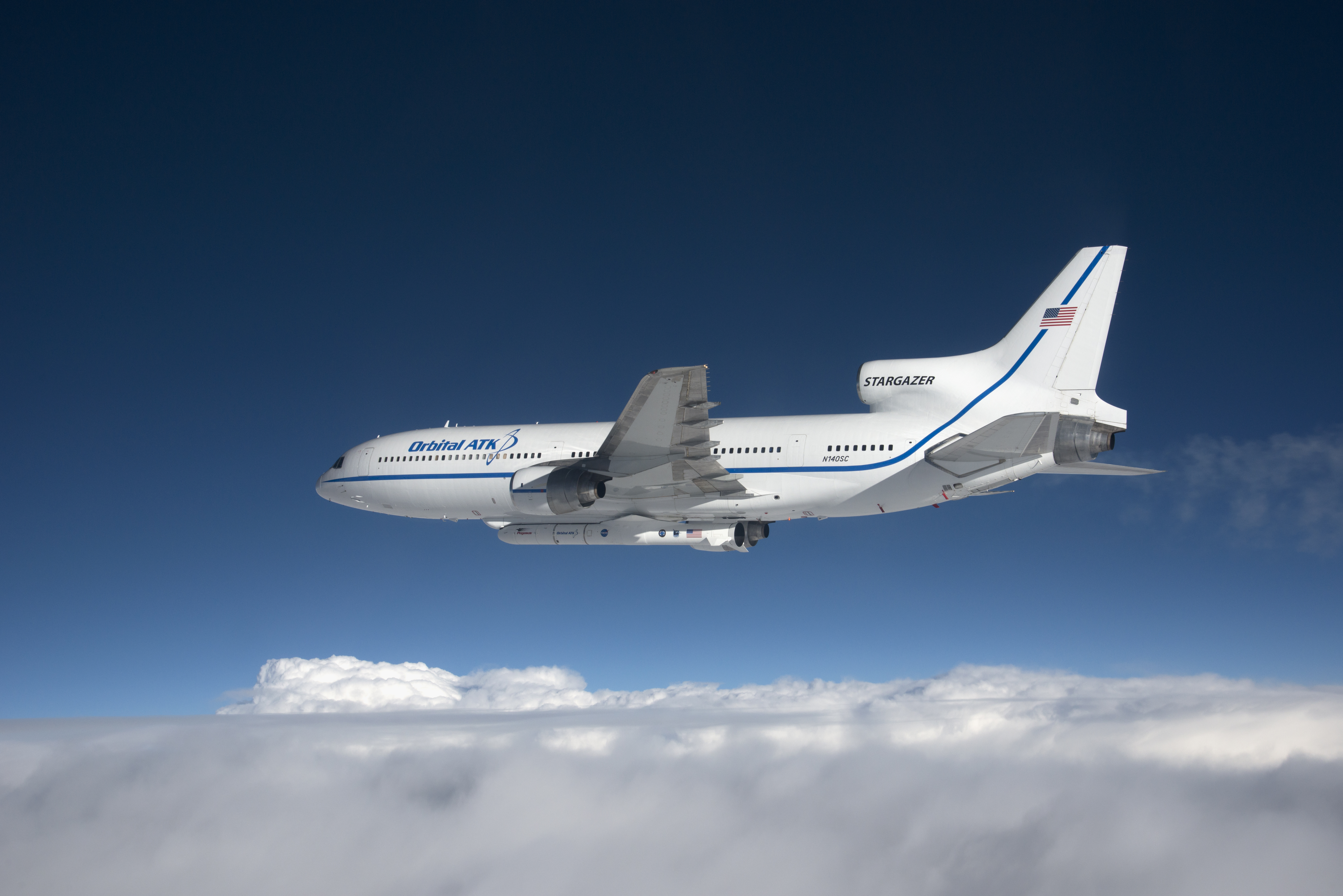 Photographed from the F-18 pathfinder aircraft, the Orbital ATK L-1011 Stargazer aircraft is seen flying over the Atlantic Ocean offshore from Daytona Beach, Florida. Attached beneath the aircraft is the Pegasus XL rocket with eight Cyclone Global Navigation Satellite System, or CYGNSS, spacecraft. The CYGNSS satellites will make frequent and accurate measurements of ocean surface winds throughout the life cycle of tropical storms and hurricanes. The data that CYGNSS provides will enable scientists to probe key air-sea interaction processes that take place near the core of storms, which are rapidly changing and play a crucial role in the beginning and intensification of hurricanes. NOTE: The Dec. 12, 2016 launch attempt was postponed due to a hydraulic pump aboard the Orbital ATK L-1011 aircraft which is required to release the latches holding Pegasus in place, is not receiving power.